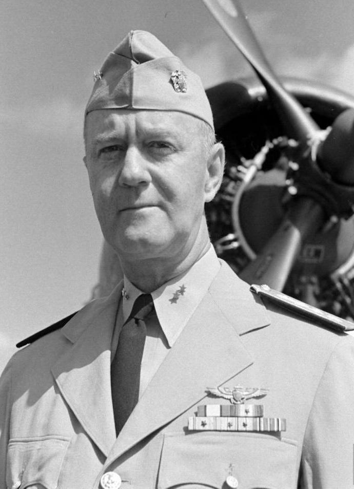 Felix Budwell Stump (December 15, 1894–June 13, 1972) was an admiral in the United States Navy and Commander, United States Pacific Fleet from July 10, 1953 until July 31, 1958.